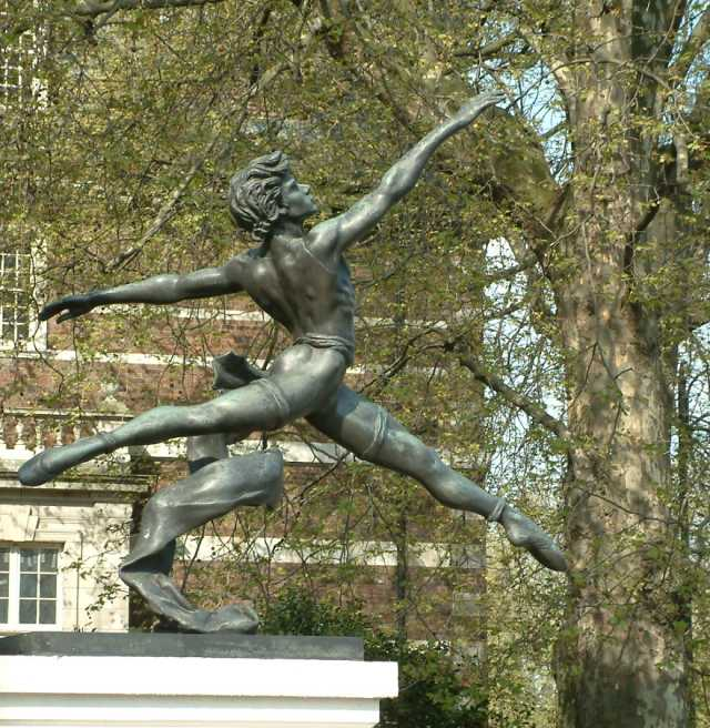 Jeté - Statue by Enzo Plazzotta - Millbank - Westminster - London - England- 240404 Sited at the end of numbers 46-57 Millbank, near Vauxhall Bridge (between Tate Britain and the Morpeth Arms public house. Photograph taken by Tagishsimon on the 24th April 2004.